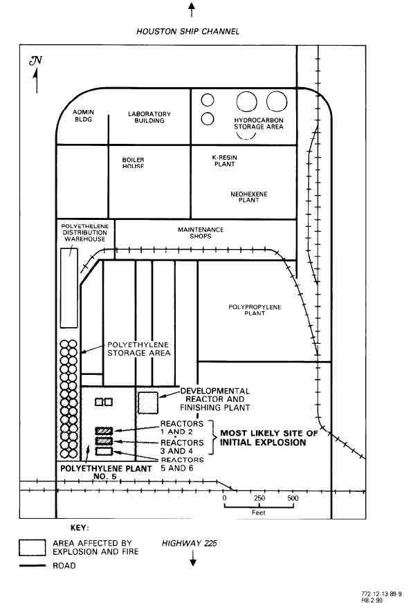 Site plan Appendix A. Site Plan, from page 19 of . This is a document is under the auspices of the United States Fire Administration, Technical Report Series, entitled "Phillips Petroleum Chemical Plant Explosion and Fire -- Pasadena, Texas" from the Federal Emergency Management Agency, United States Fire Administration, National Fire Data Center.